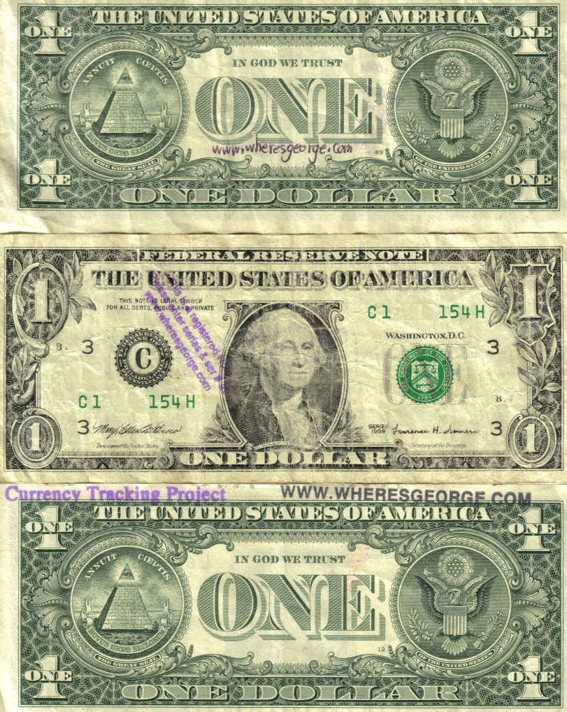 Ways that Where's George Bills can be identified.